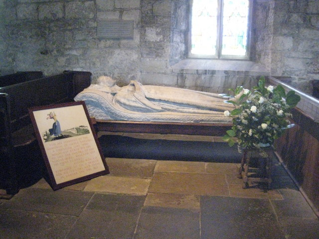 Effigy of Grace Darling in St Aidan's Church This effigy was originally on the memorial in the churchyard but because it was eroded by the sea air it was relocated here and replaced on the memorial by one made from a more durable material.